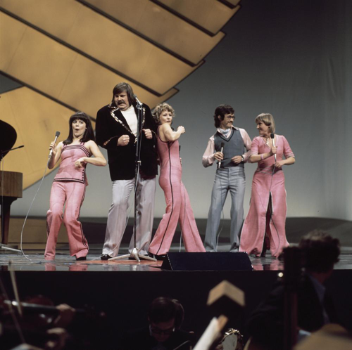 Fredi & Ystävät at a rehearsal for the Eurovision Song Contest 1976.